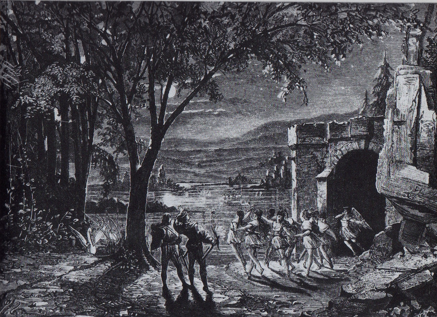 Design by F. Gaanen for the décor of Act II of Swan Lake, Moscow, 1877